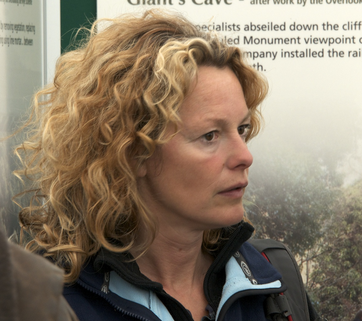 Kate Humble, presenter of many nature programmes on the BBC. Kate's website is